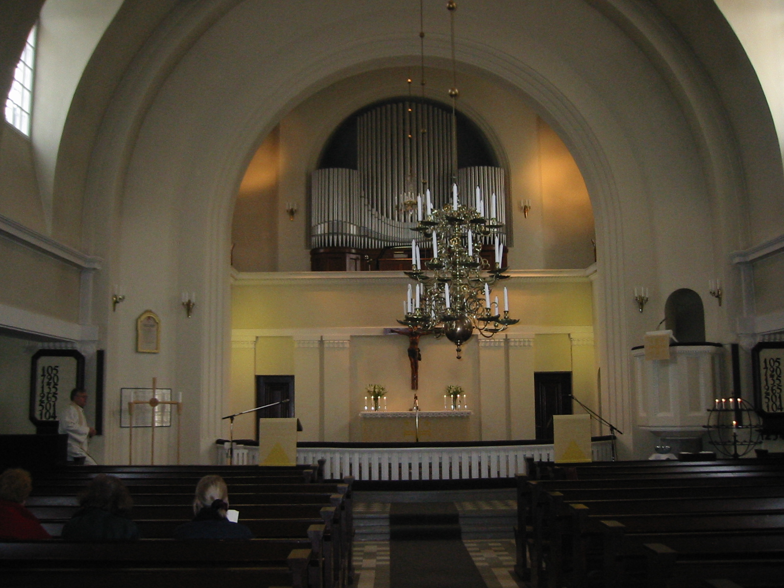 Interior of Karkku Church, built in 1913, in Vammala (now Sastamala), Finland